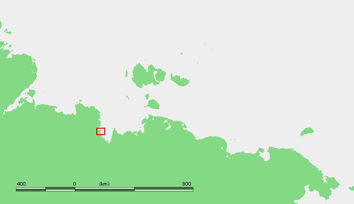 location map